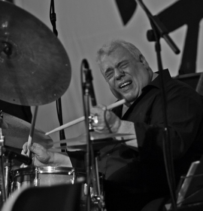 Martin Drew (A shot of Martin Drew taken at the Appleby Jazz Festival)